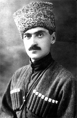 İsmail Hakkı Bey (Berkok, 1890-1954)